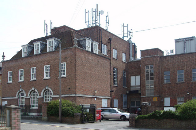 Winton Telephone Exchange The exchange is in Wycliffe Road, Winton just behind the main shopping street. These buildings now support more and more mobile phone antennas.